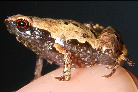 A male of Mini mum above a thumb, in Manombo Special Reserve, in southern Madagascar.